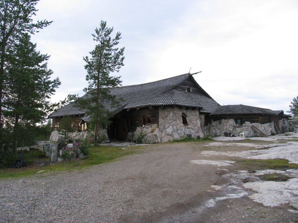 Pauanne center in Kaustinen, Finland